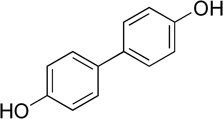 chemical structure of 4,4'-biphenol